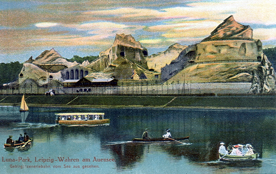 Postcard, undated ( ca.1914 ). Title: "Luna-Park, Leipzig-Wahren at Auensee. Mountain scenes train - View from the lake".